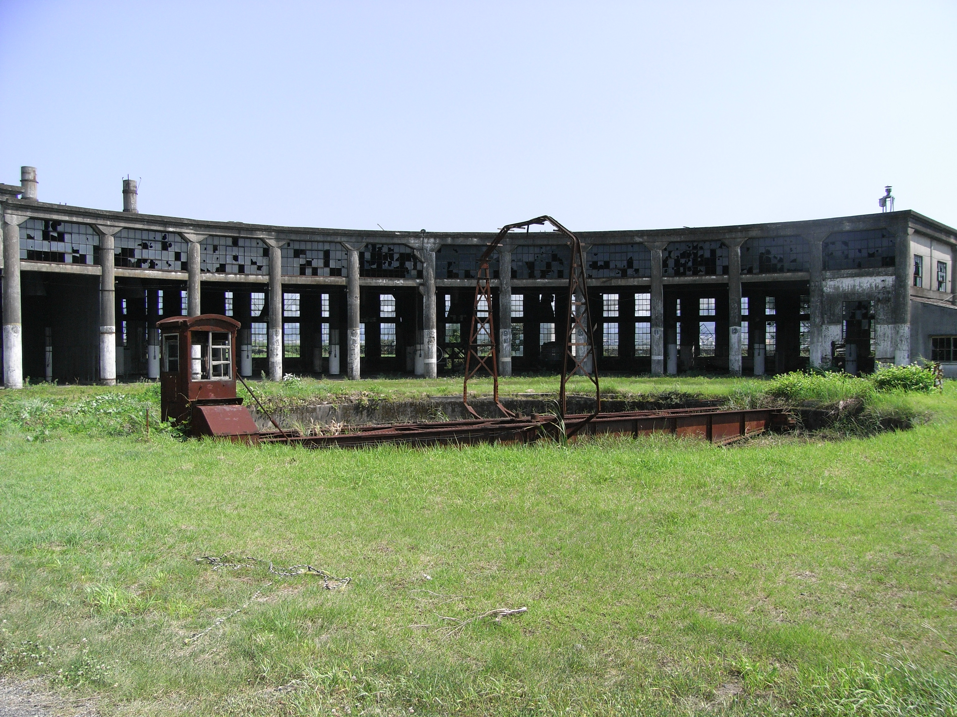 The abandoned turntable and train depot of Bungo-Mori Station in Kusu, Ōita, Japan.